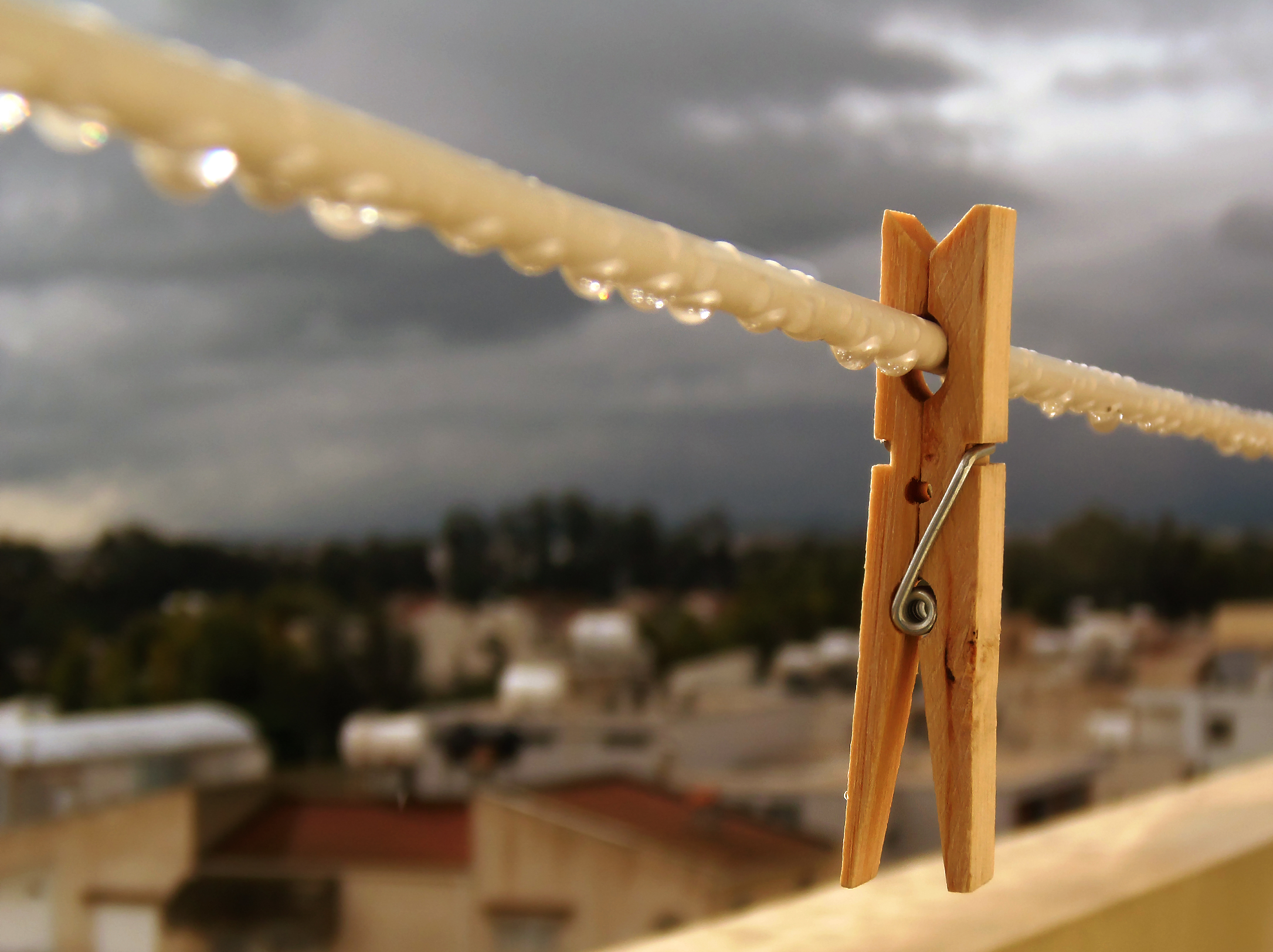 Clothespin after the rain